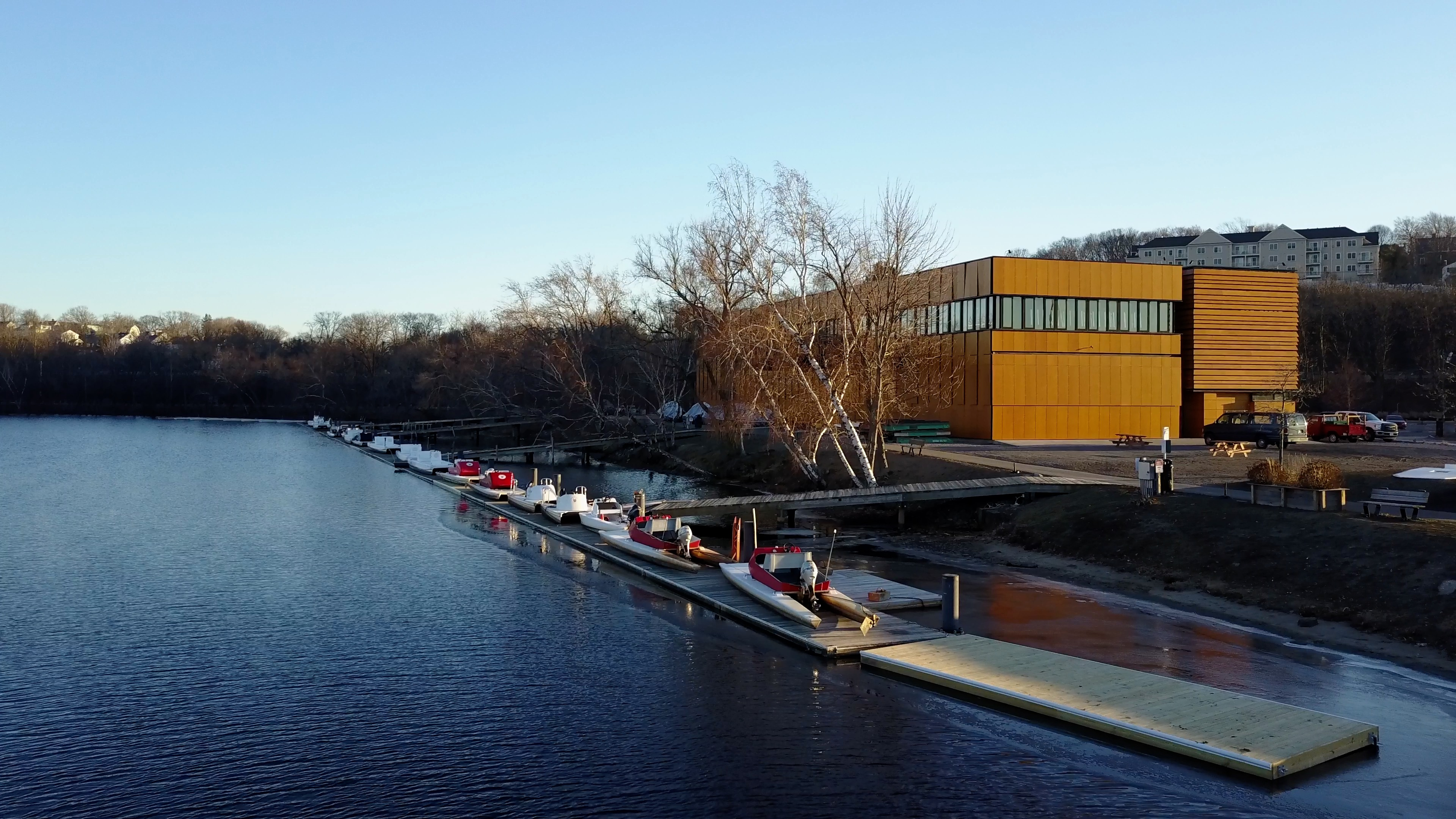 Community Rowing, Inc. (view from Charles River)